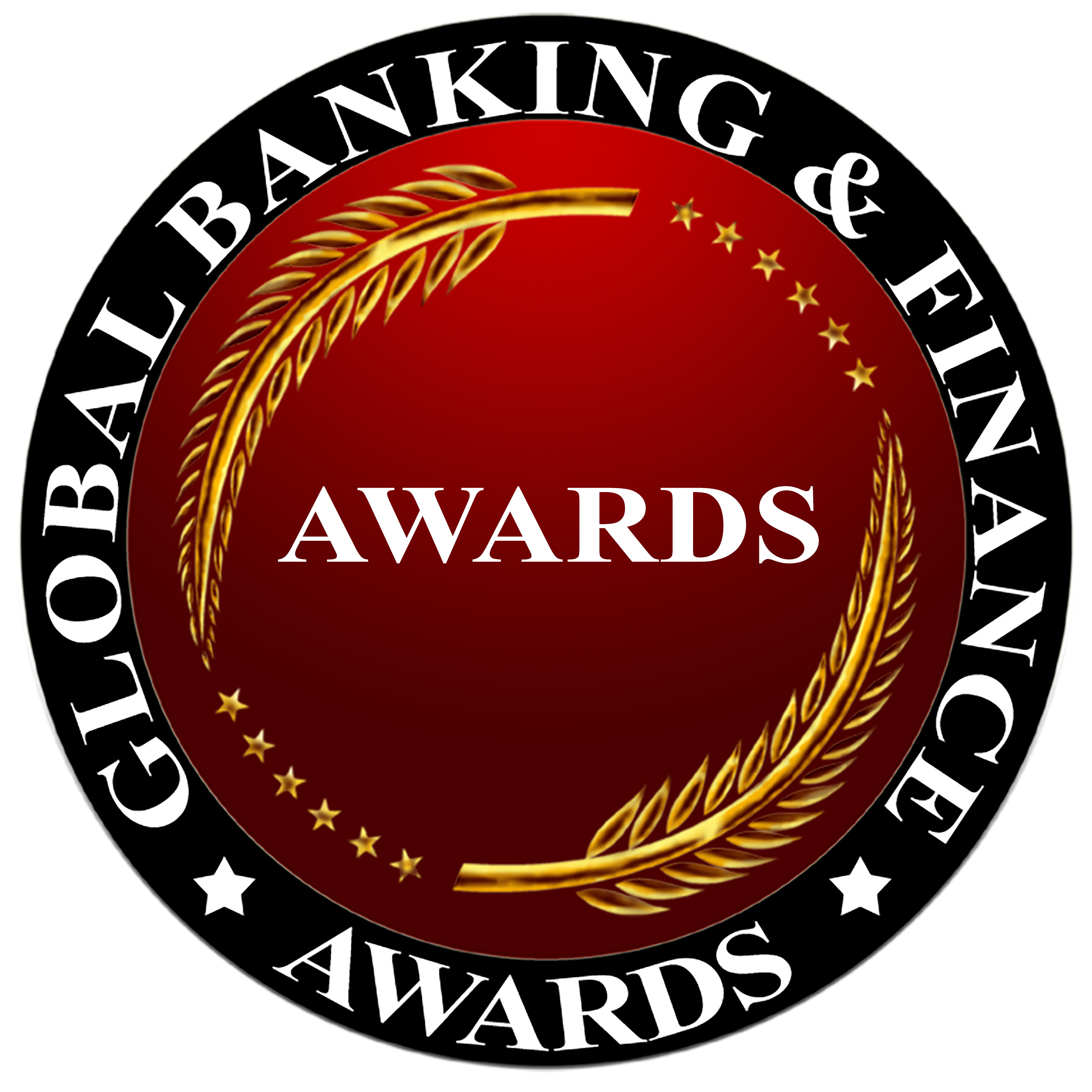 GBAF Awards